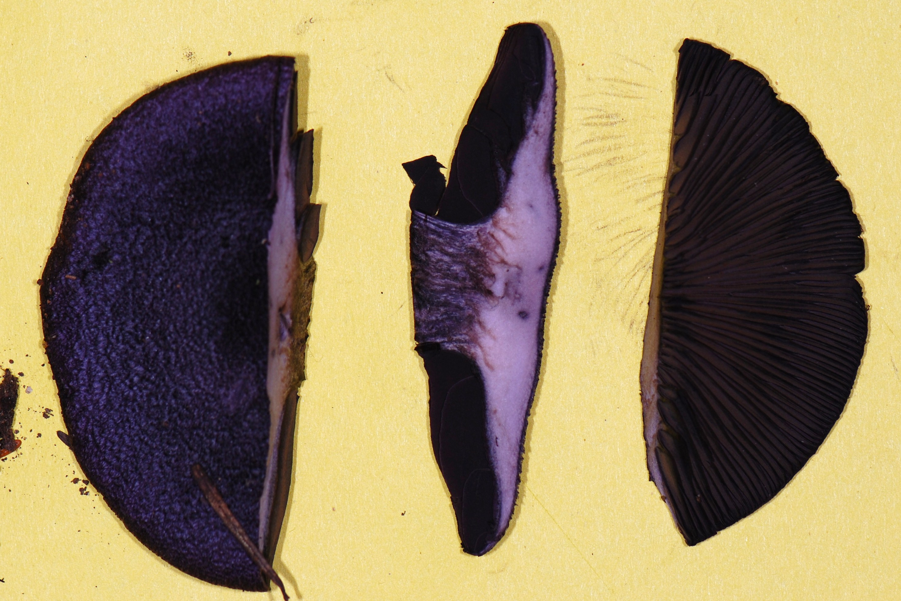 Cortinarius violaceus cap in cross section